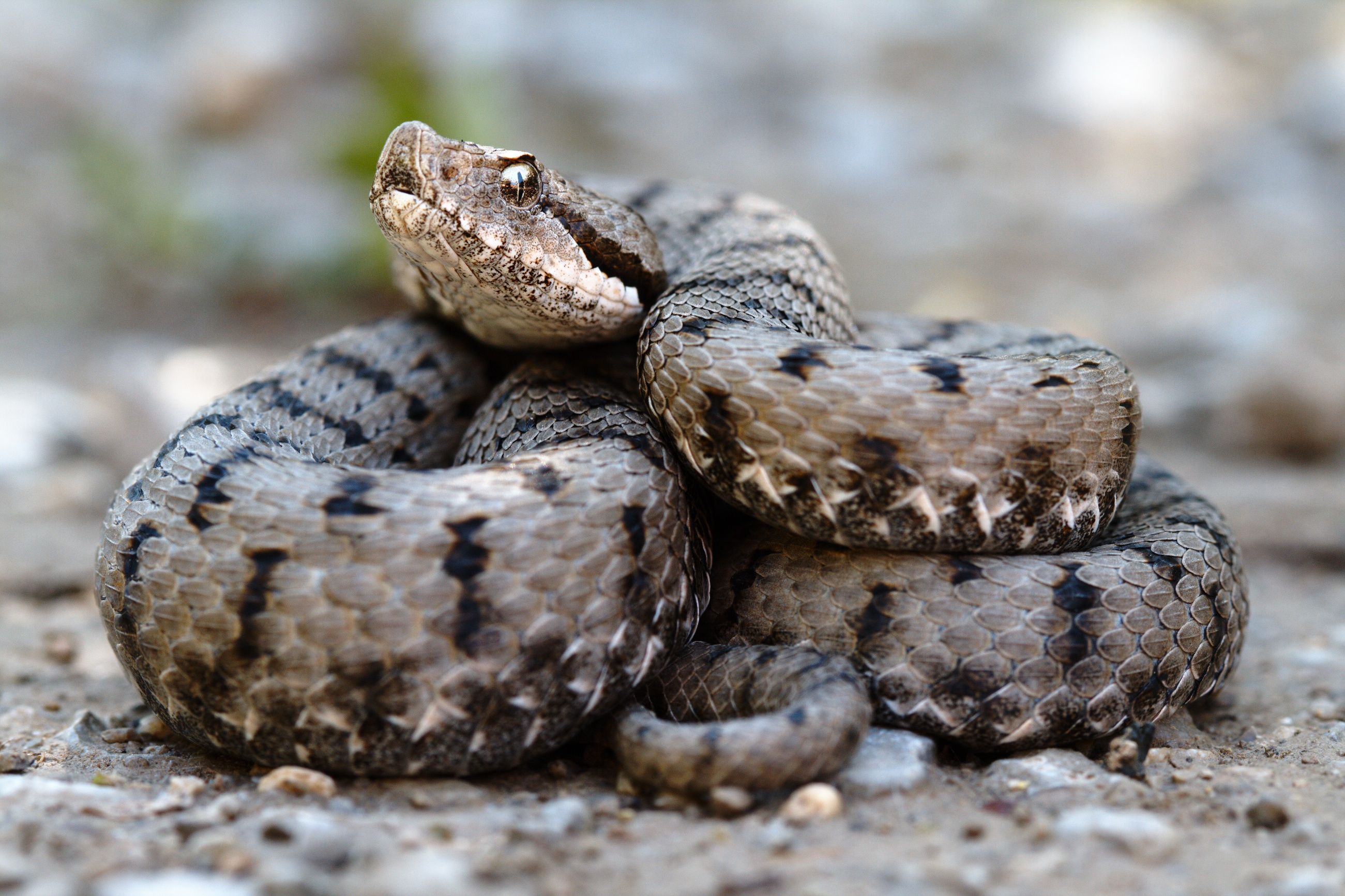 French Vipera aspis aspis seen in the wild.